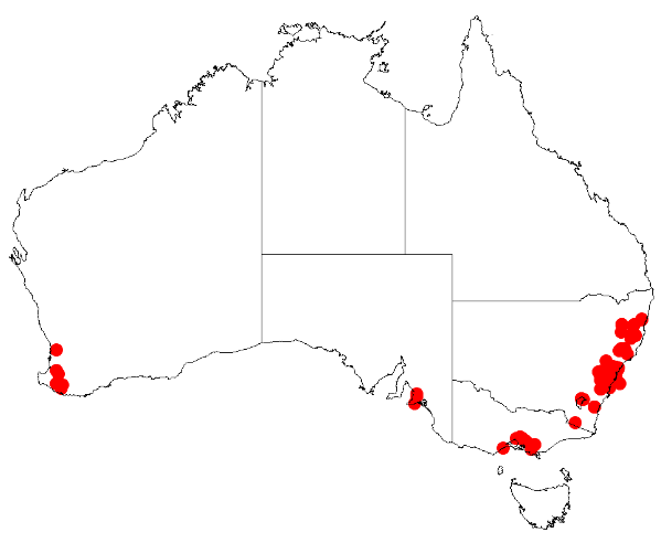 Acacia elata Occurrence data from Australasia Virtual Herbarium downloaded from on 8 December 2018